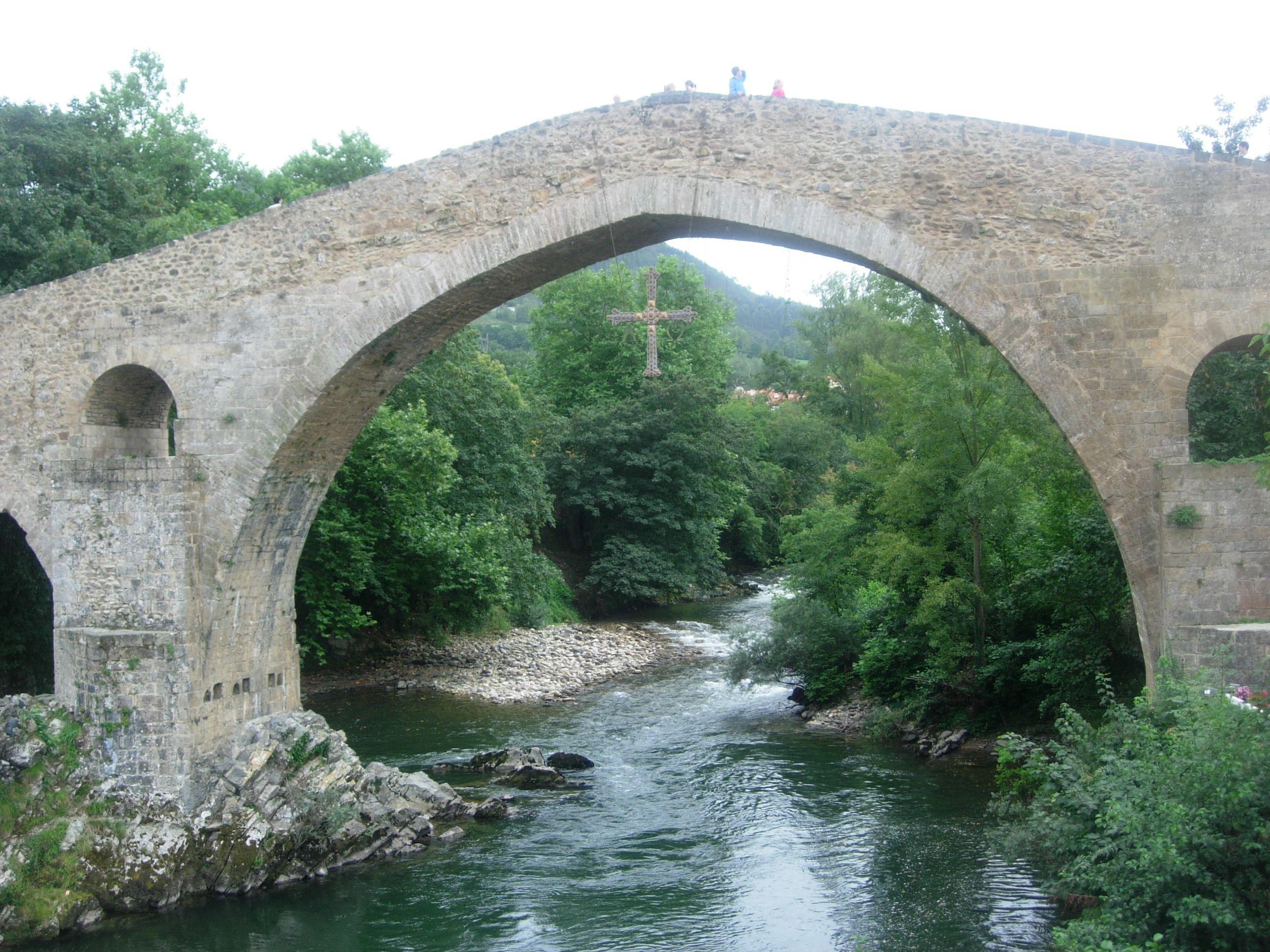 Photo of the Roman bridge in Cangas de Onís in the autonomous community of Asturias (Spain)